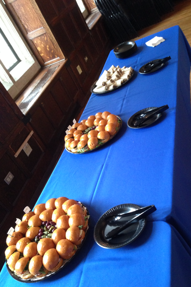 Corp Catering picture